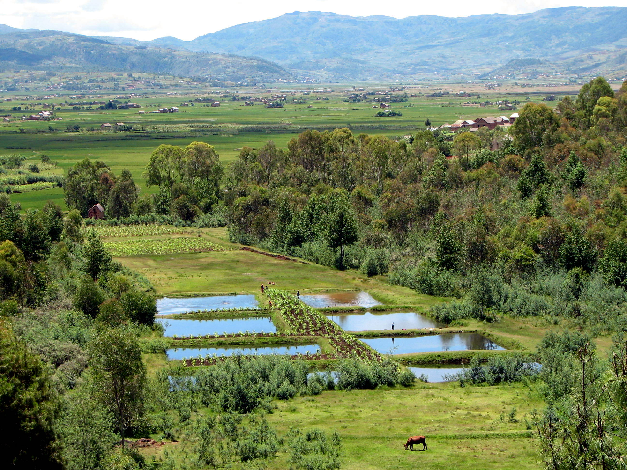 Landscape in Hautes Terres, south of Antananarivo, Madagascar